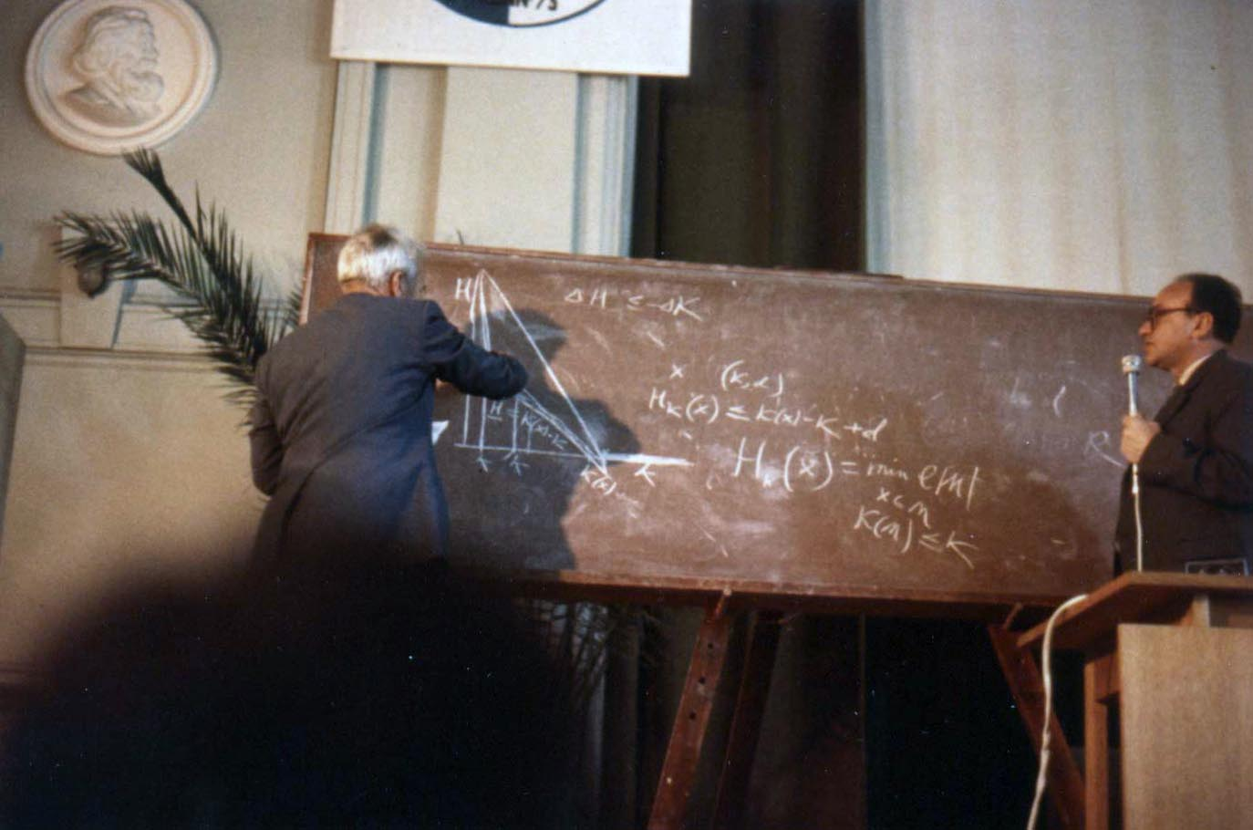 taken at the 1973 Soviet Information Theory Symposium (may not be the exact title) held in Tallinn, Estonian SSR. Kolmogorov delivers his talk. A.M. Yaglom is also on the picture.